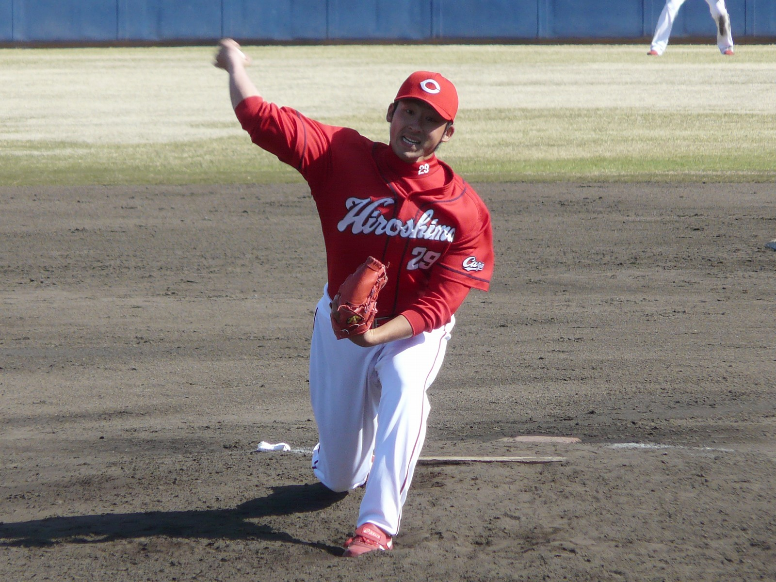 Tsuyoshi-Sato